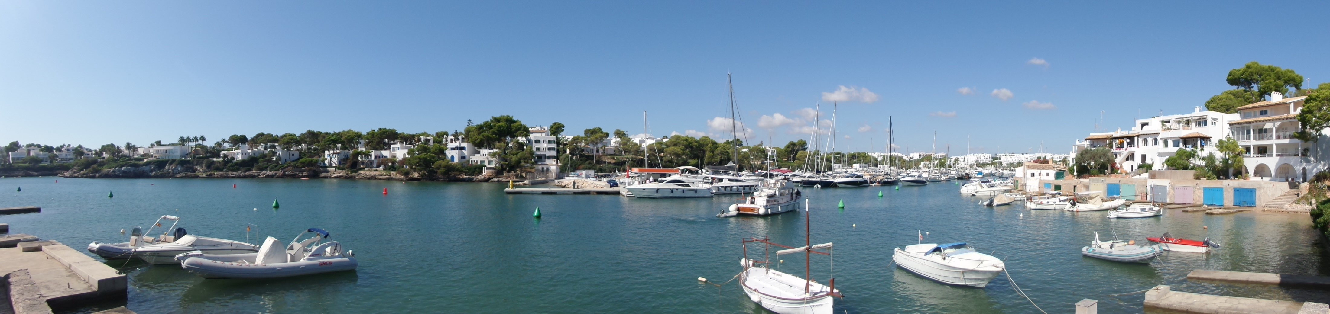 Cala Llonga (Bay) in Cala d’Or (Village) Аҧсшәа: Cala Llonga (Cala) en Cala d’Or (Municipio)